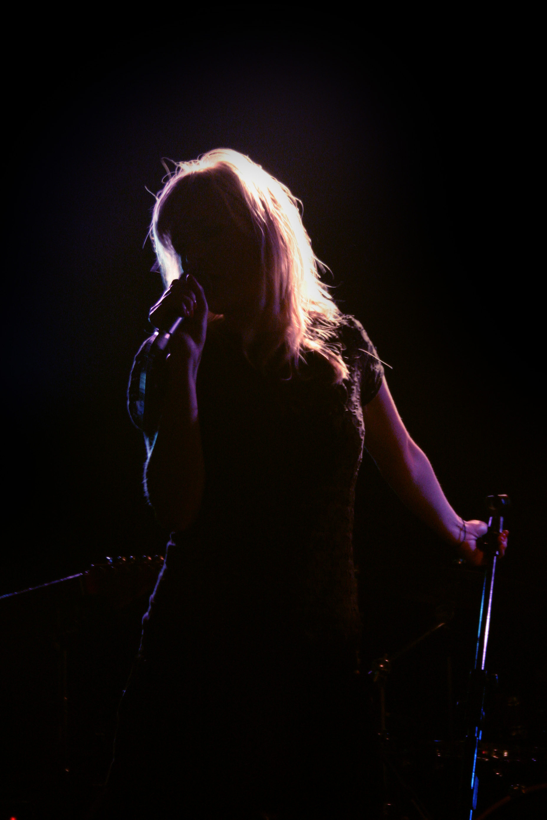 Mima Stilwell of Kish Mauve performing live at 93 Feet East, London on 1st June 2006.